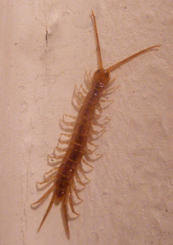 I think this is Lithobius forficatus (no rings on the legs, so it is not variegatus).